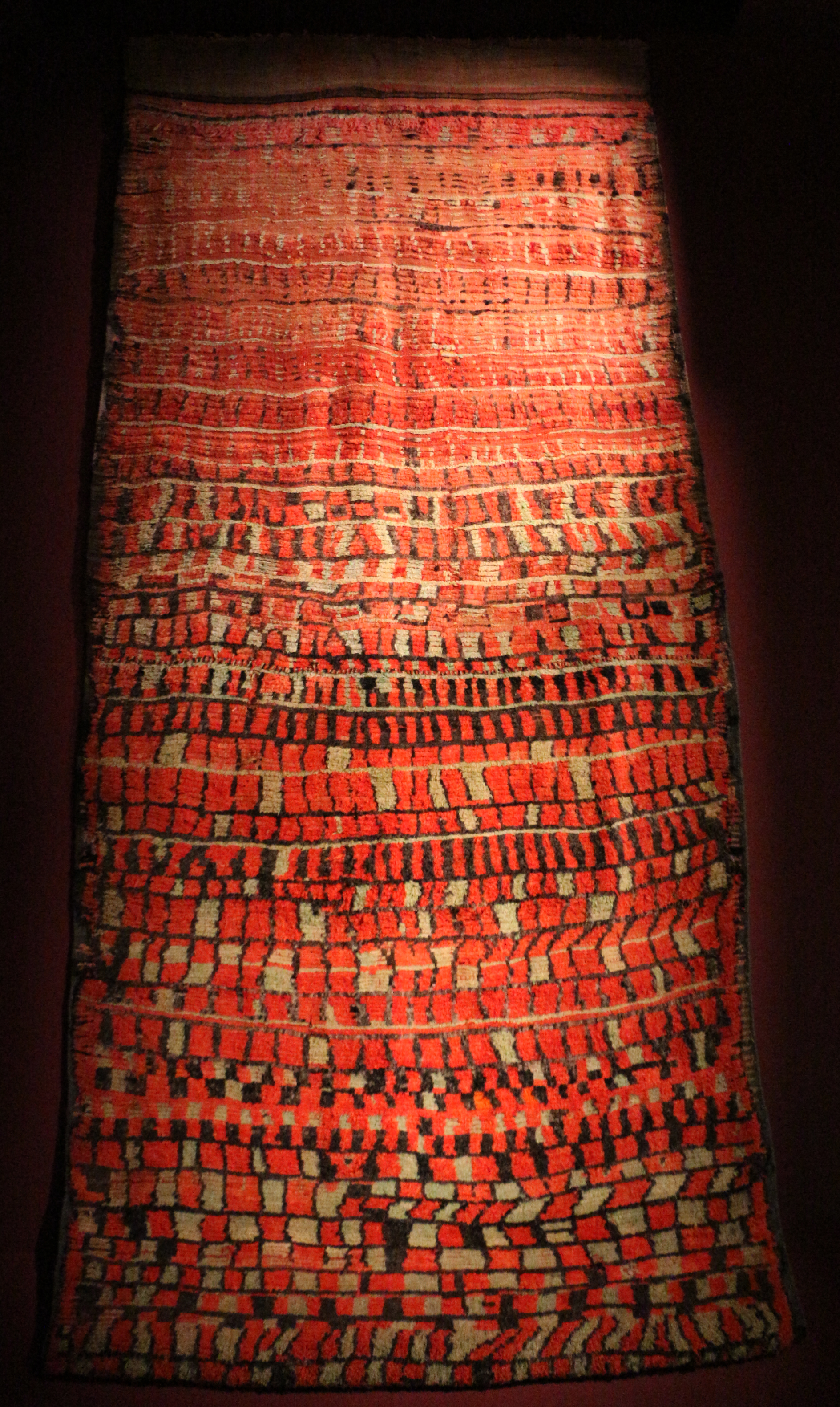 African art in the Musée du quai Branly